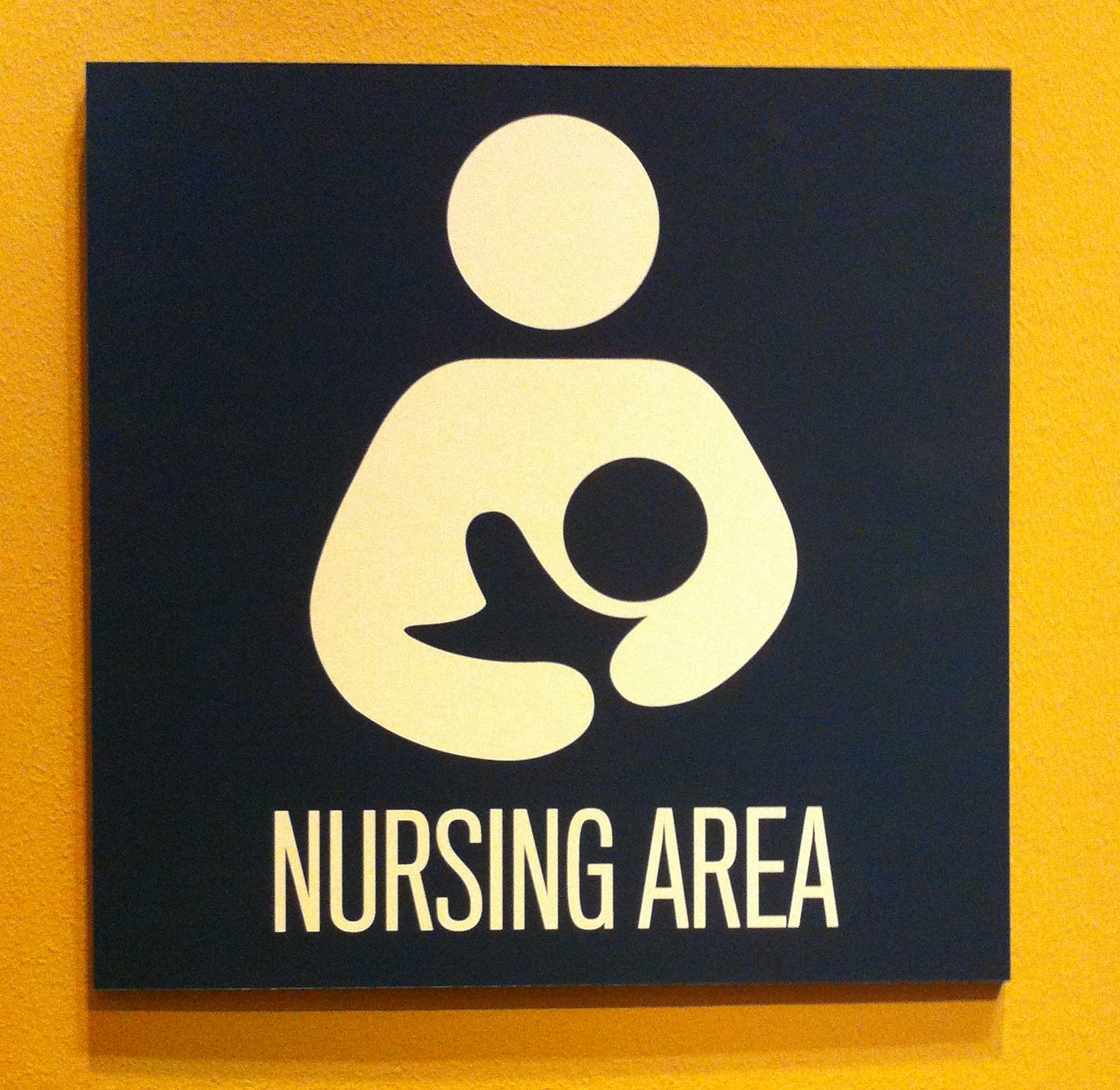 Sign at door of nursing area at the Perot Museum of Nature and Science in Dallas, Texas